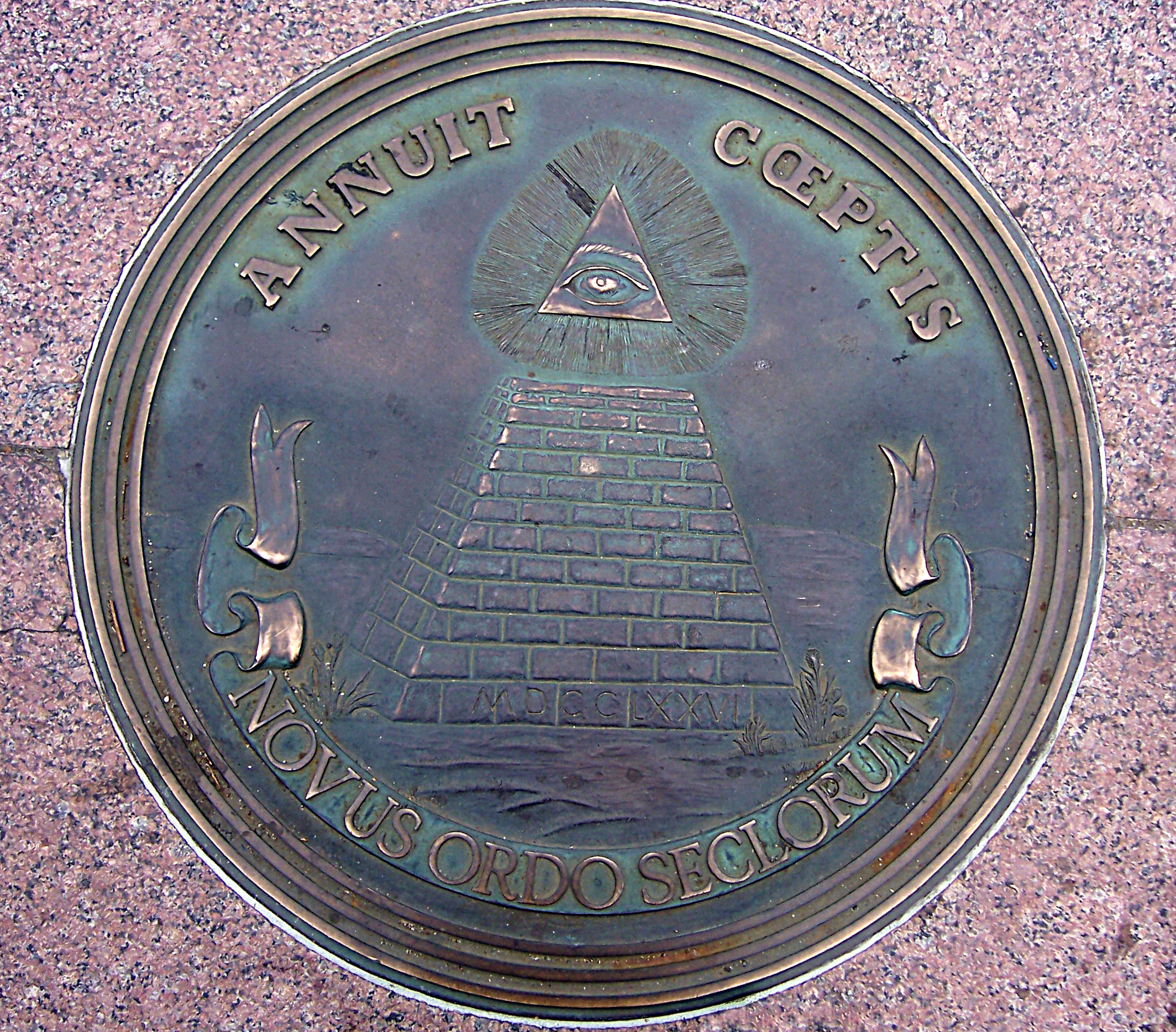 The national seal, as seen in Freedom Plaza. I have photoshopped out the feet from the bottom.